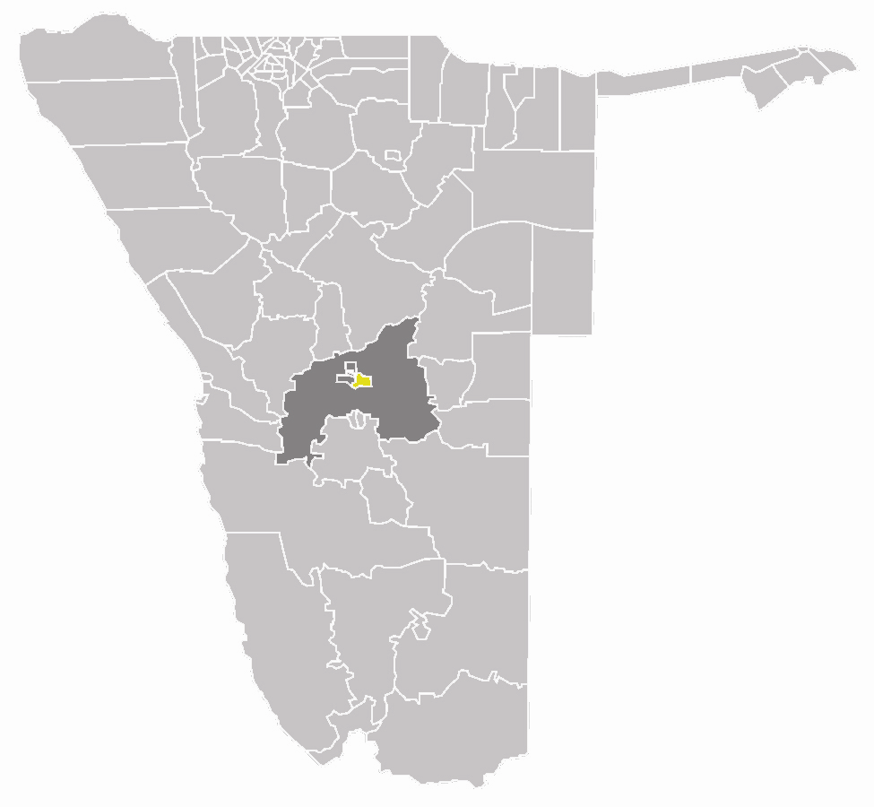 map of the Windhoek East constituency within the Khomas region, Namibia